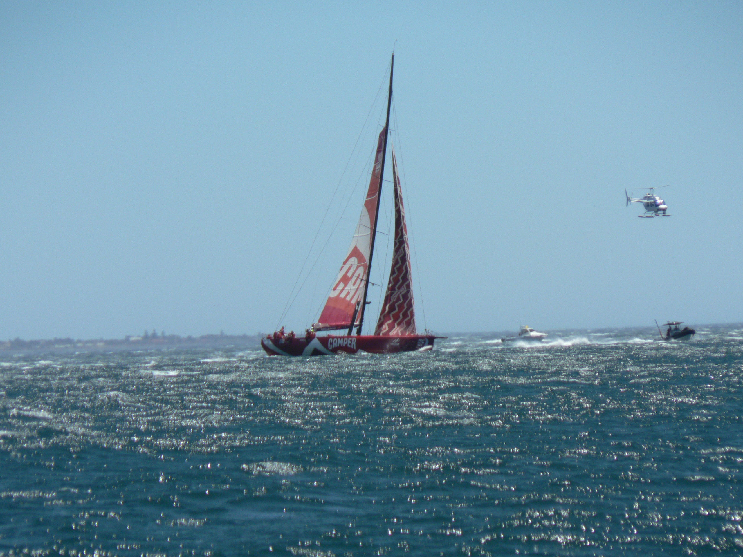 Camper sailing during the Cape Town stop-over.